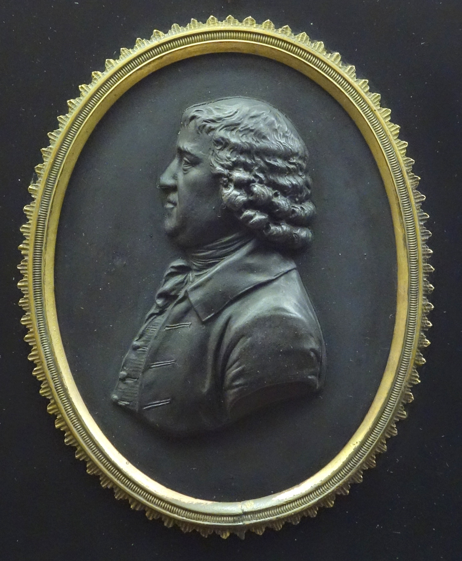 Portrait bust of Josiah Wedgwood (1730-1795), modelled by William Hackwood; designed 1782-1783, made circa 1800. Exhibit in the Brooklyn Museum - Brooklyn, New York, USA. This artwork is in the public domain because the artist died more than 70 years ago.